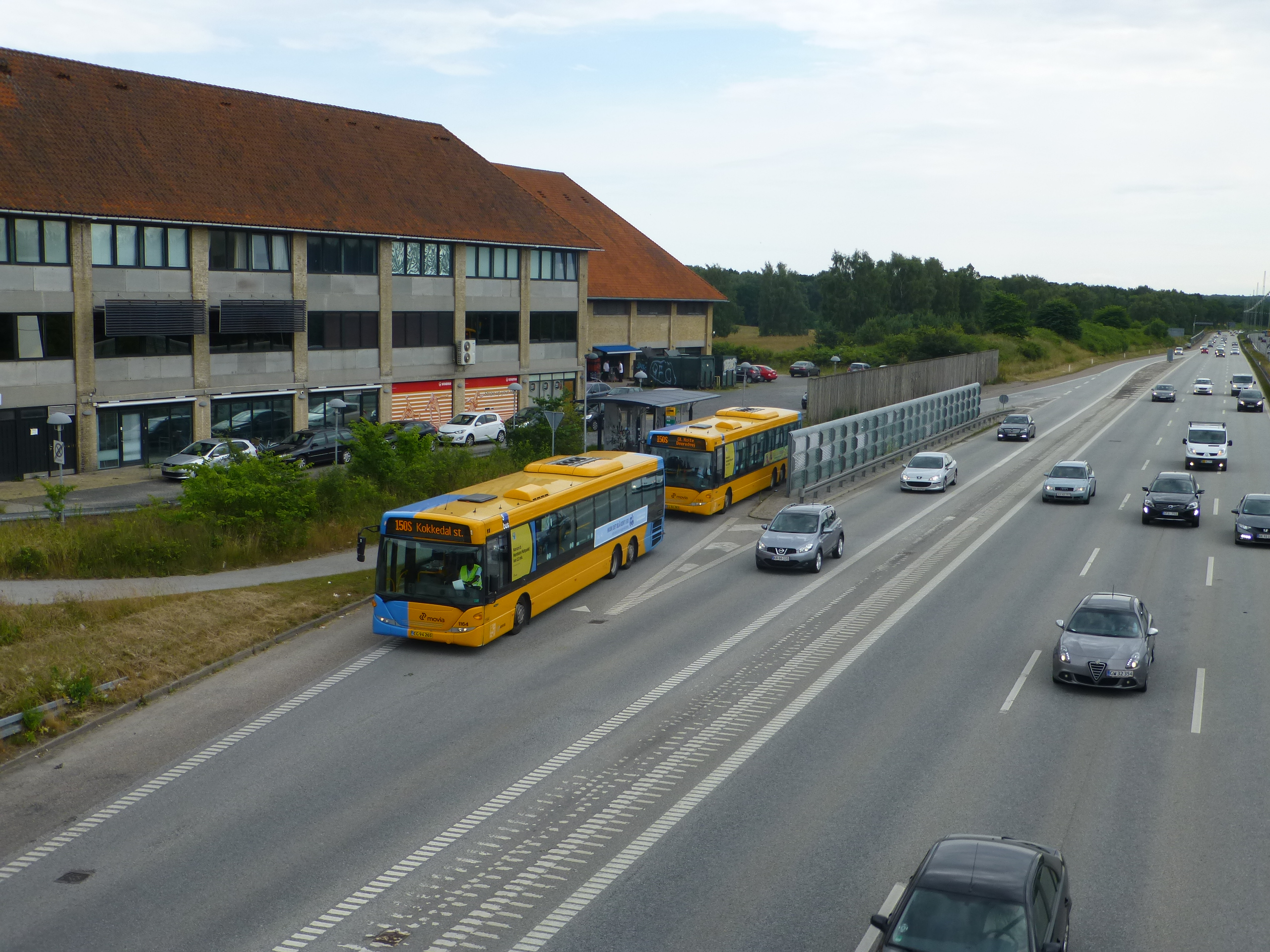 Movia bus line 150S on Helsingørmotorvejen at Nærum Station north of Copenhagen.